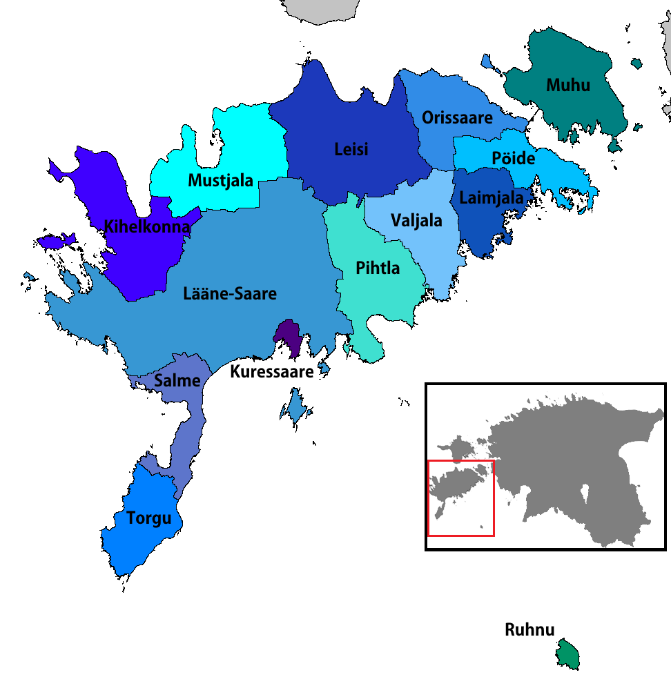 Map of the municipalities of Saare county in Estonia, 2014–2017